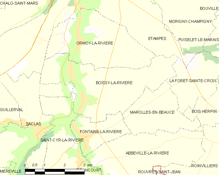 Map of French municipality Boissy-la-Rivière